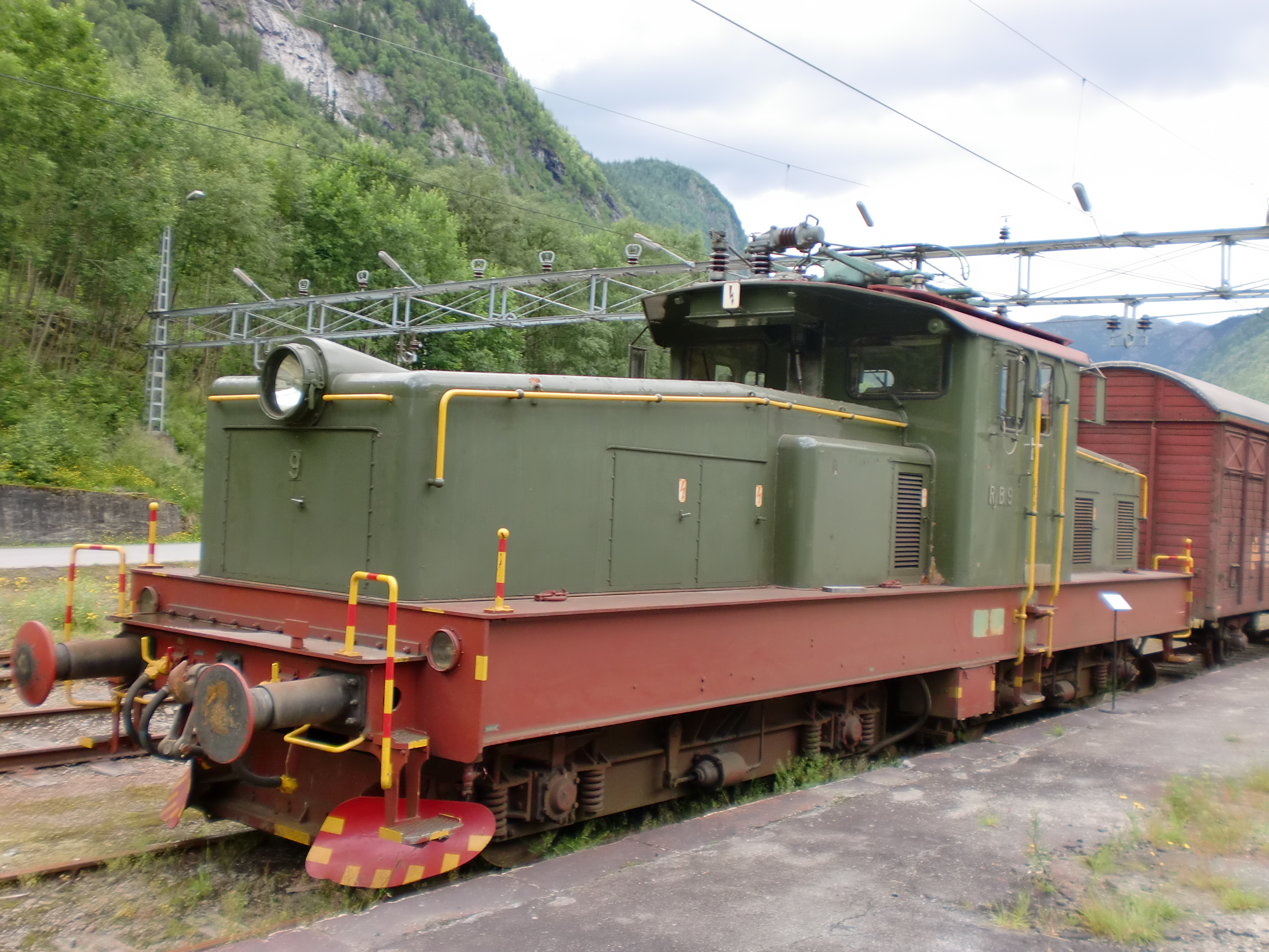 The locomotive Rj.B (Rjukanbanen, the Rjukan line) 9 at Rjukan station.